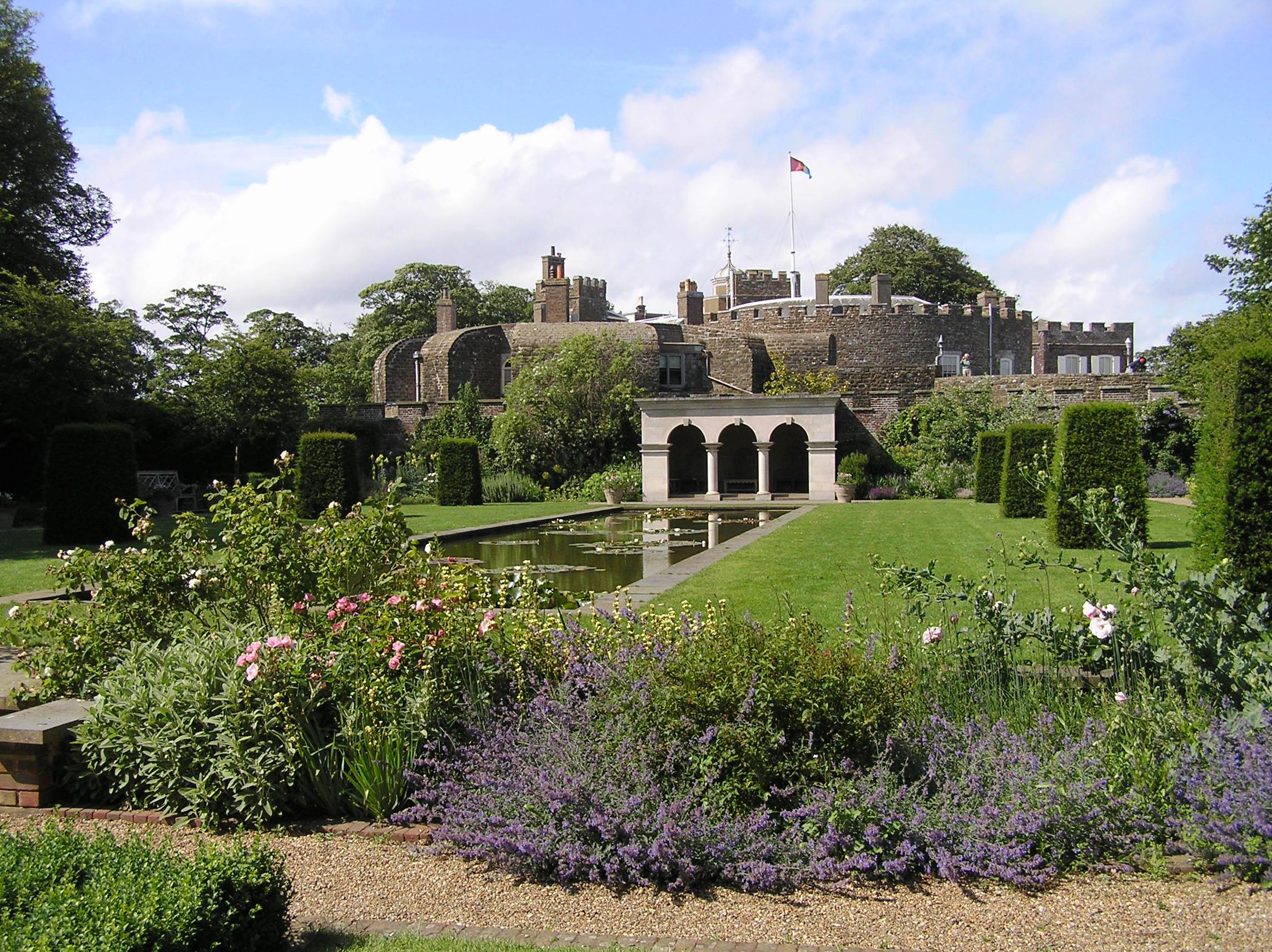 Artillery castle at Walmer